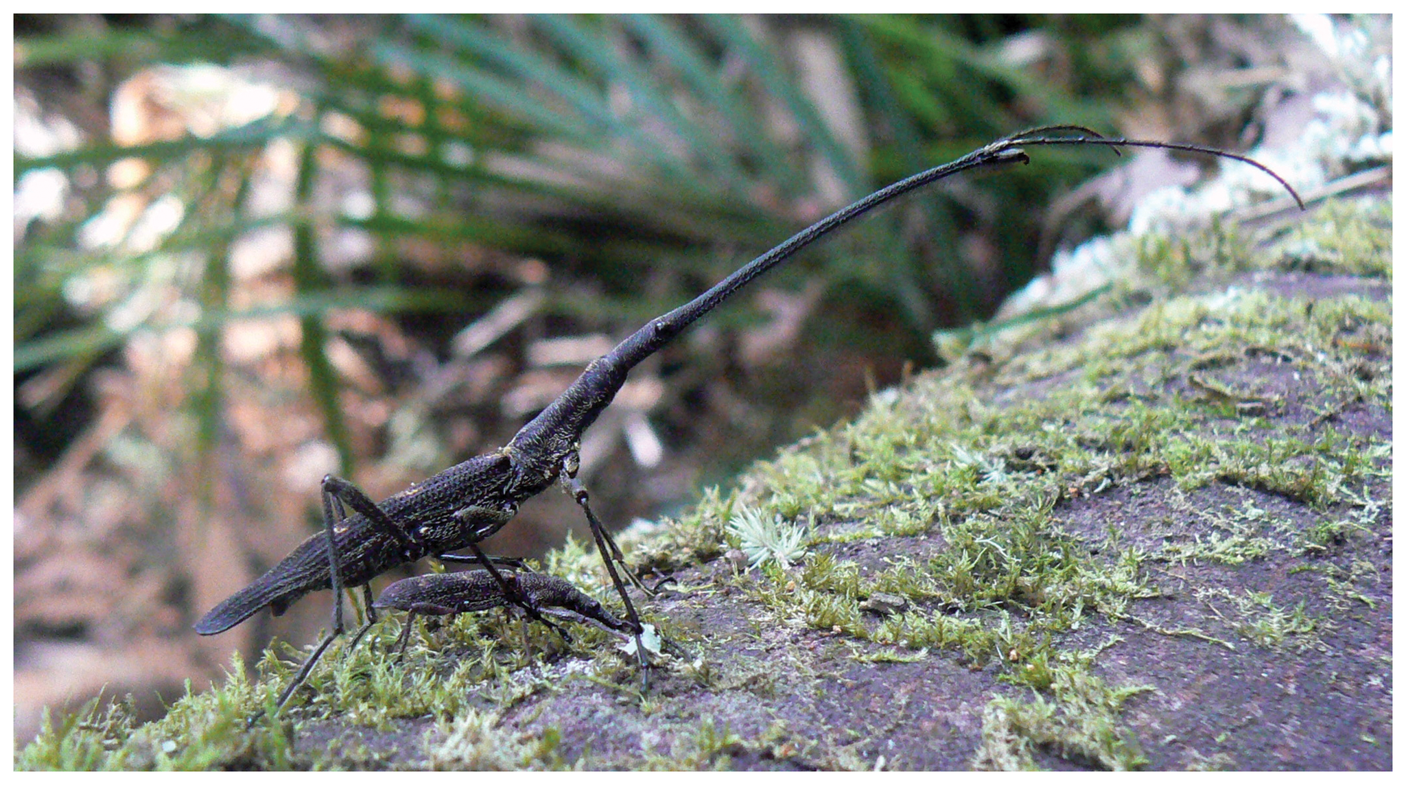 A large male giraffe weevil guards a drilling female. The extreme sexual dimorphism in this species is highlighted here, and is mostly due to the elongation of the male rostrum.